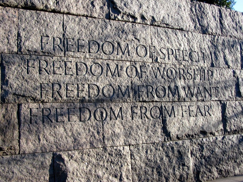 Franklin Delano Roosevelt's "Four Freedoms" at the Franklin Delano Roosevelt Memorial in Washington D.C., USA. Taken 4/4/2005 by Daniel Bjorndahl. Should be incorporated into "Franklin Delano Roosevelt Memorial" article as a superior image to the present "Four Freedoms" picture (FDR_Memorial_wall.jpg).